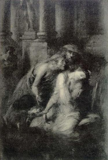 From a drawing of André Castaigne. The starving Livilla refusing food.